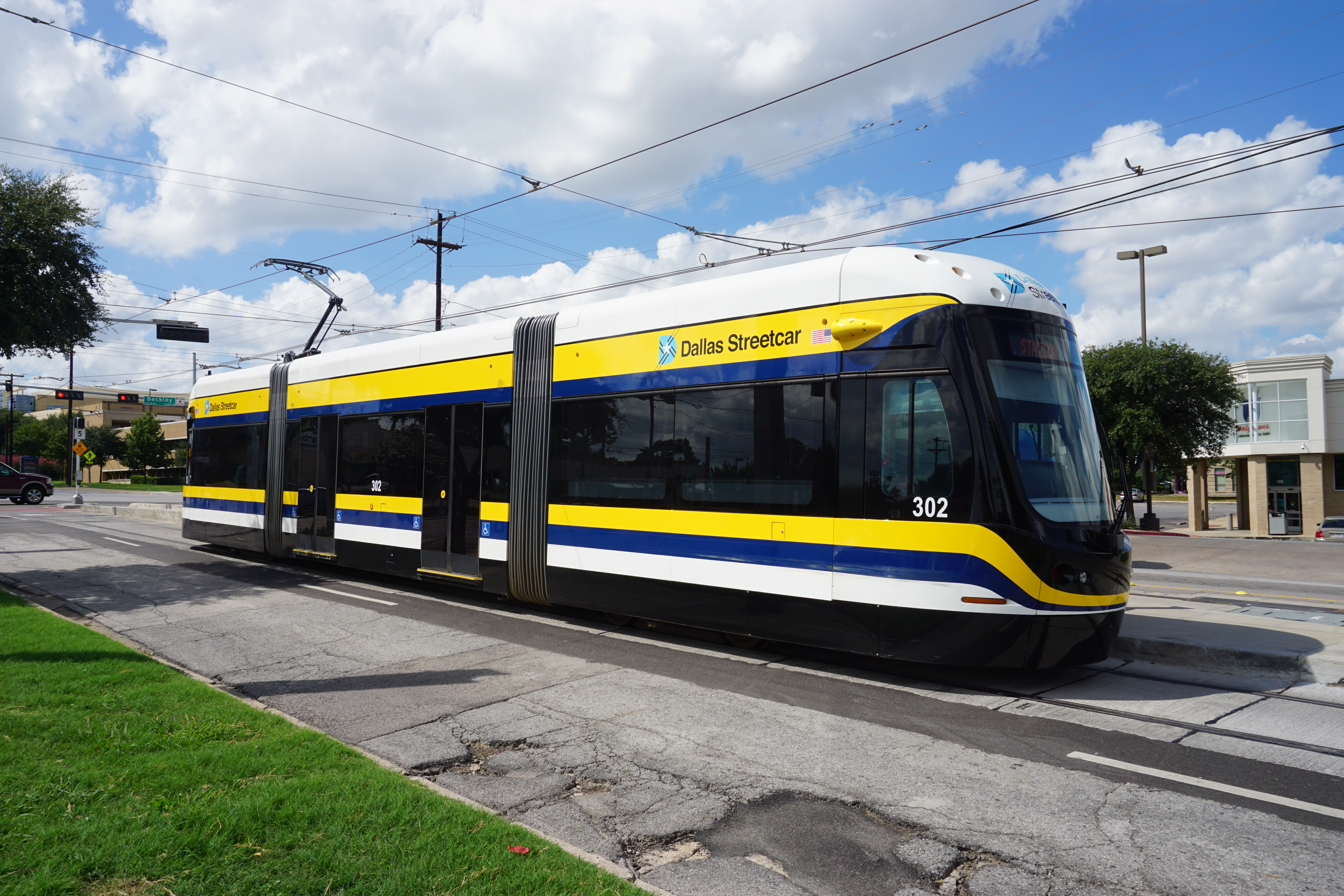 A Dallas Streetcar in the Oak Cliff neighborhood in Dallas, Texas (United States).